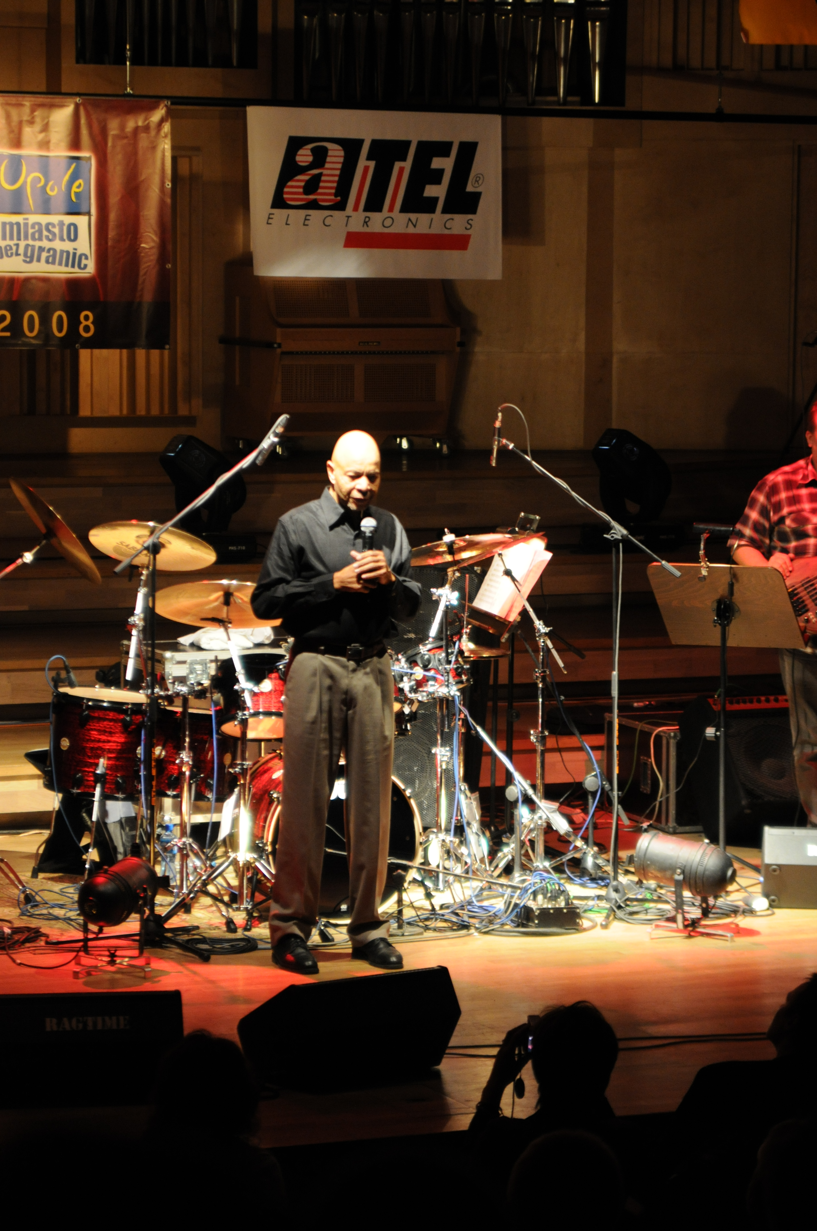 Chester talking about drumming and music